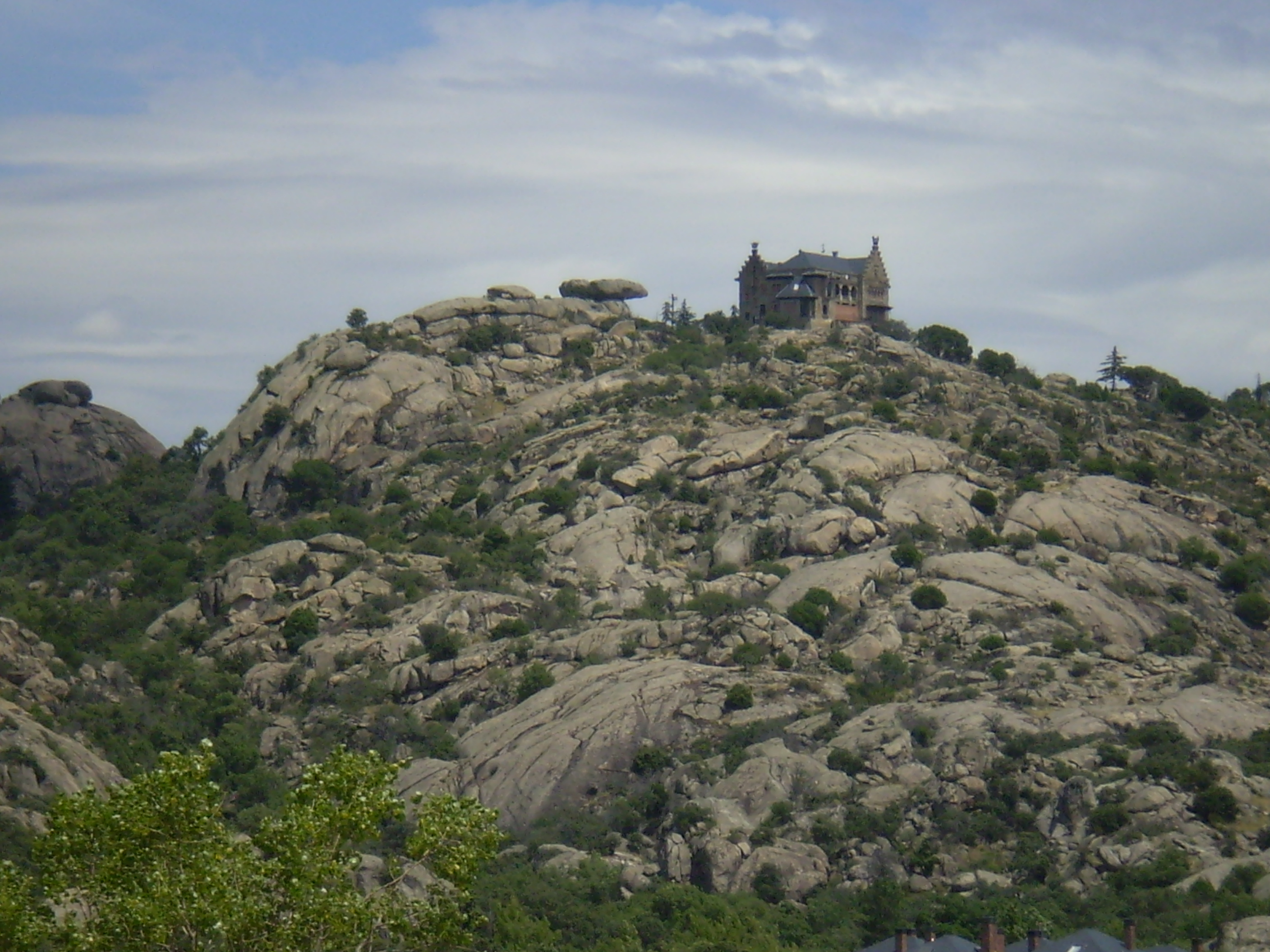 Canto del Pico Mountain. Community of Madrid, Spain